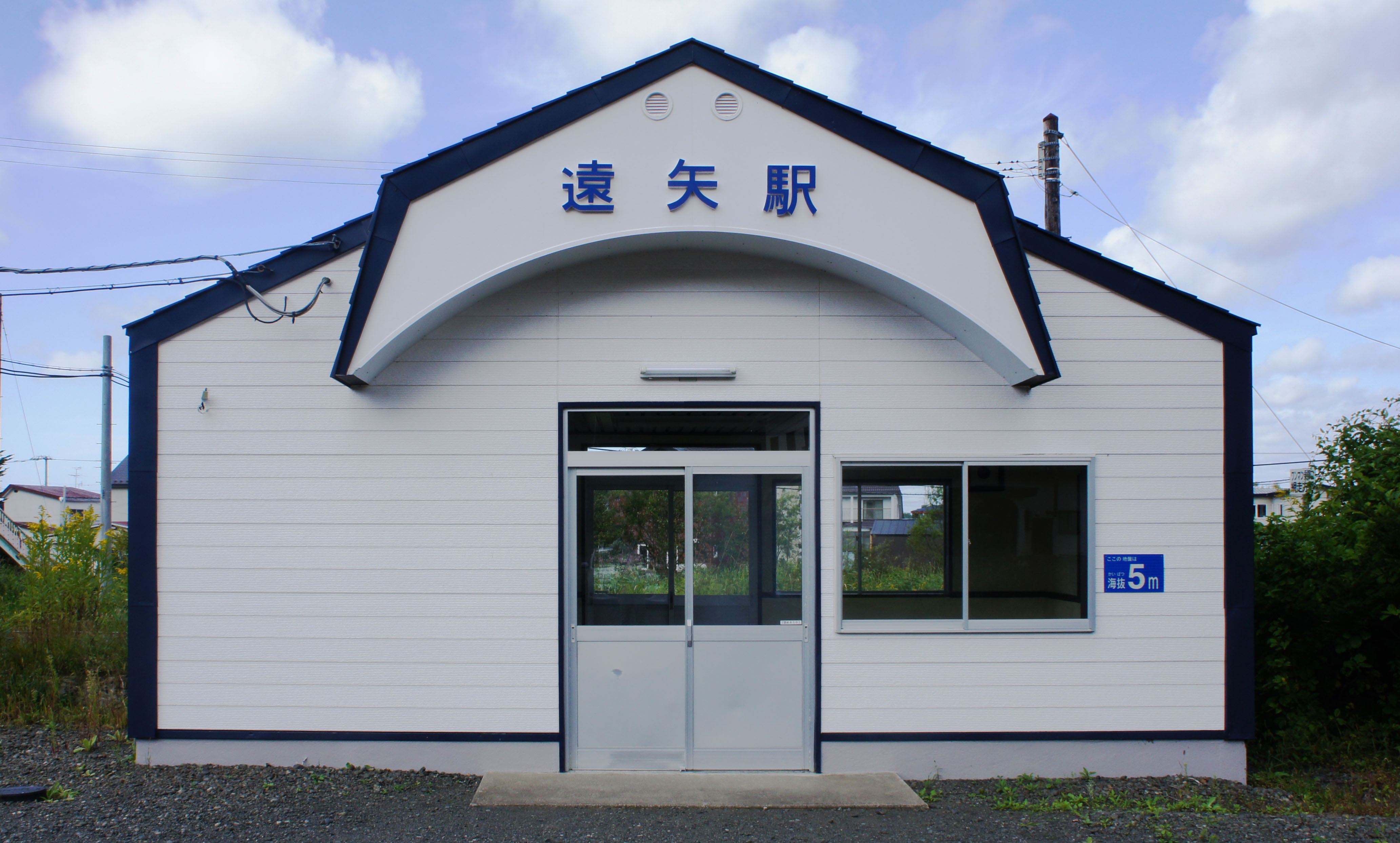 Station building of JR Senmo-Main-Line Toya Station